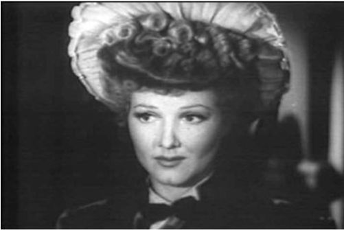 Jean Parker in Bluebeard (1944)